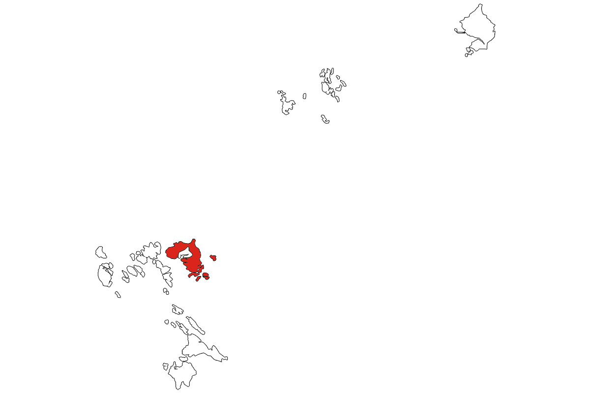 Locator of Bintan Regency within Riau Islands Province